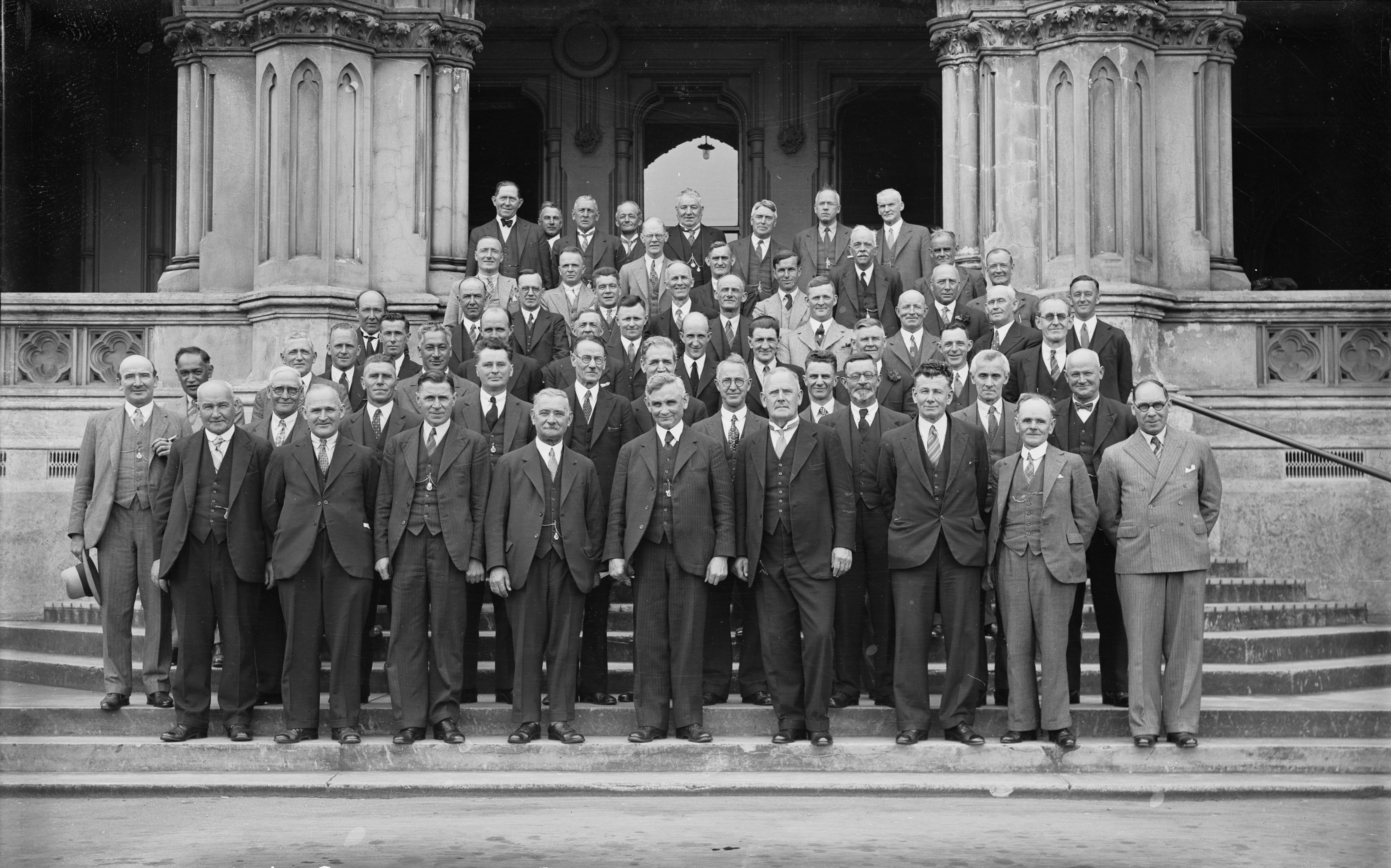 Members of the Labour Government caucus, on the steps of the General Assembly Library, Parliament Grounds, Wellington.